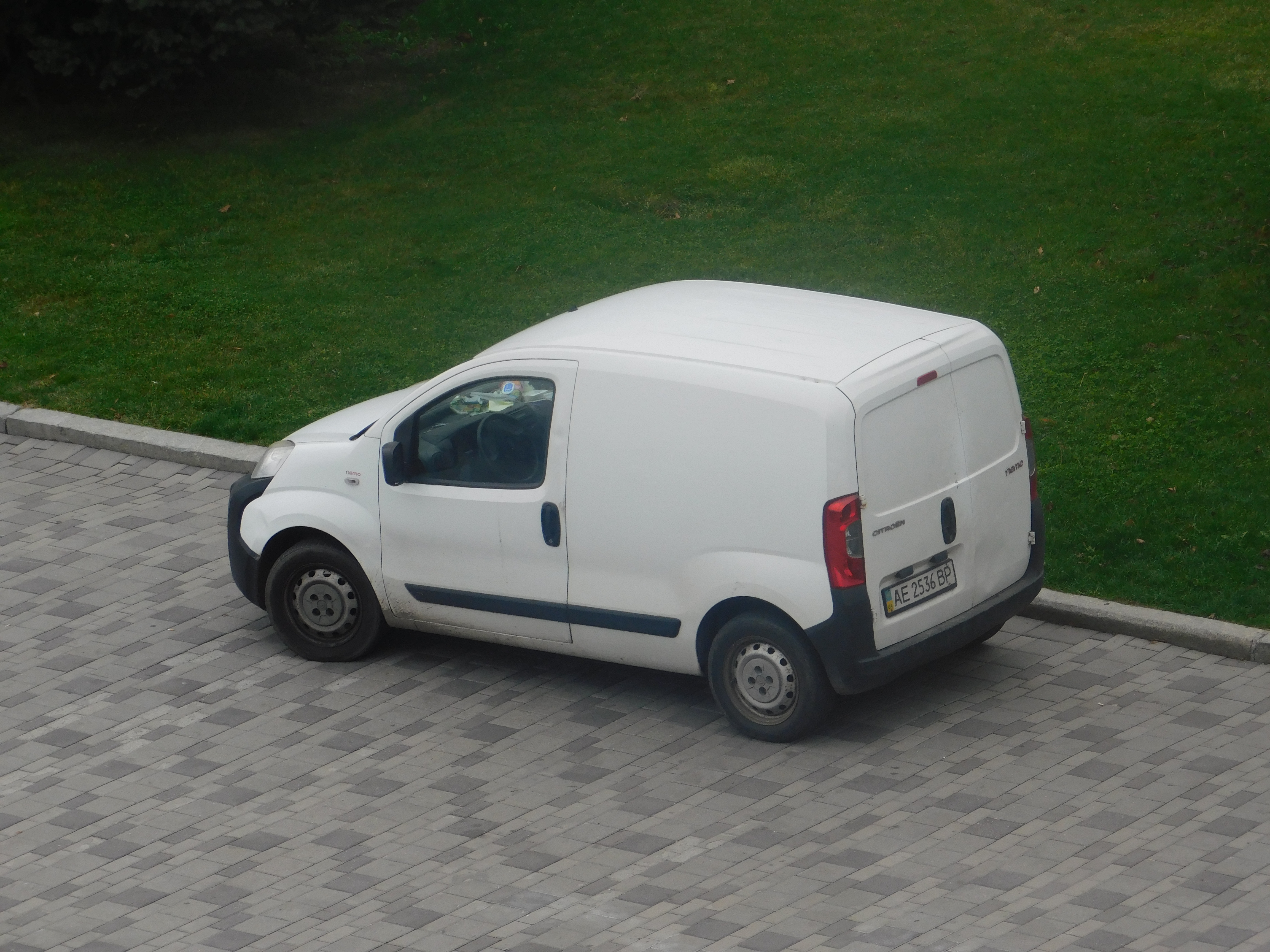 Citroen Nemo - AE 2536 VR, back